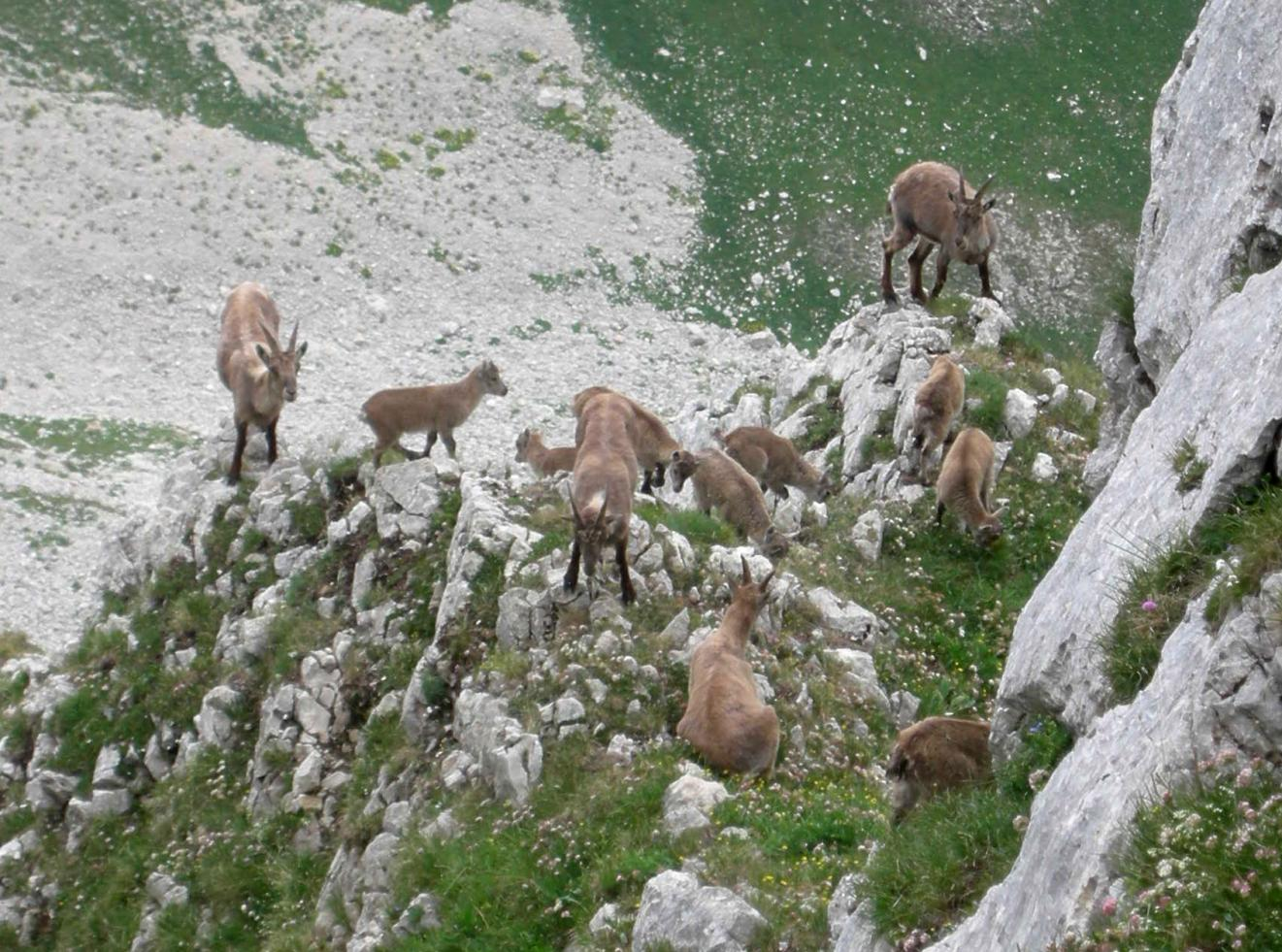 Alpine Ibexes on the Grand Veymont mountain